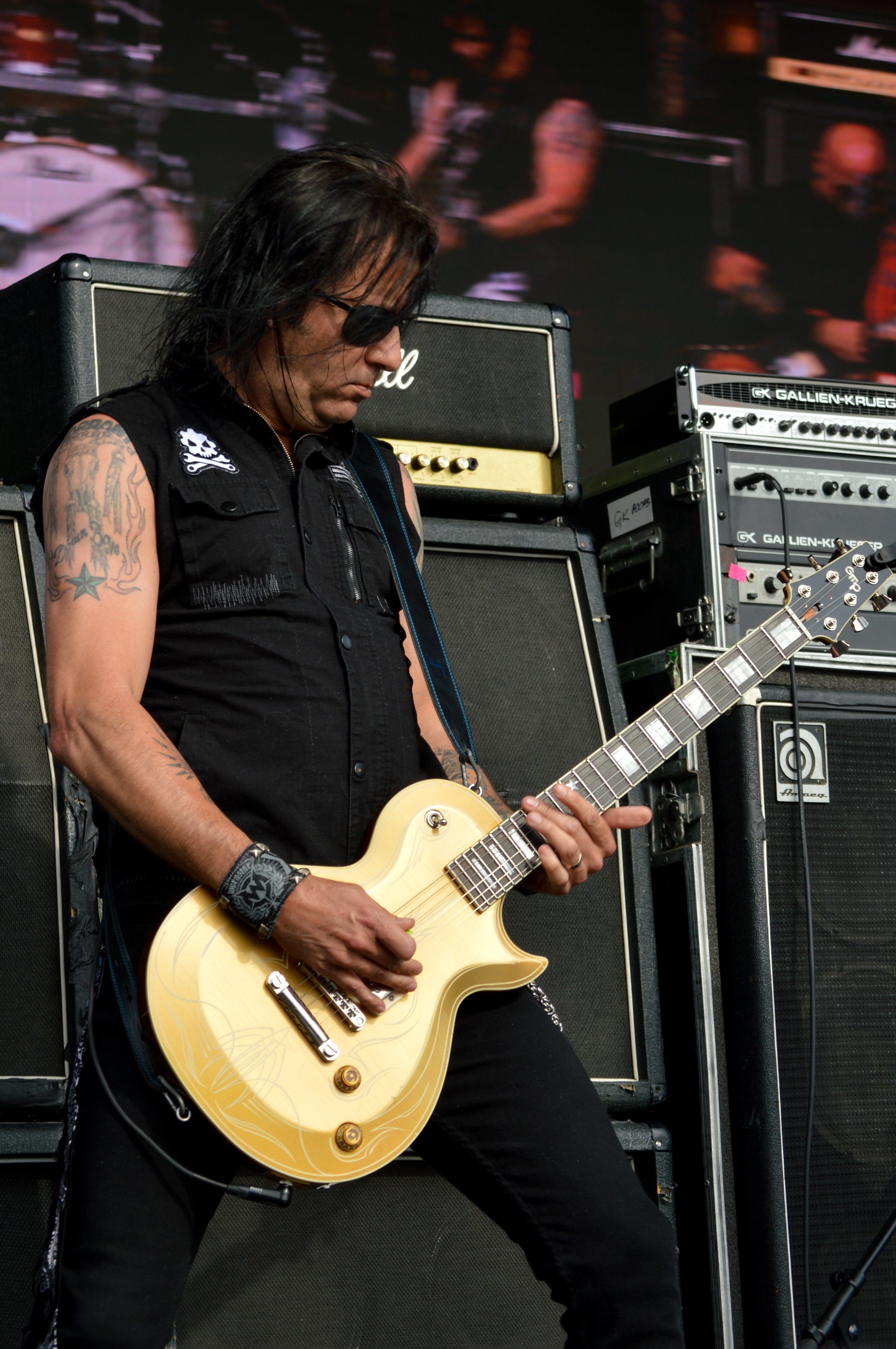 Erik Turner taken April 2, 2016 at Rockfest 80's Sunrise, Florida. Photo: Copyright Rick Munroe